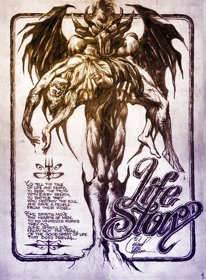 1st of an 8 page story by comics artist Michael Netzer from his unpublished comics work (1981).